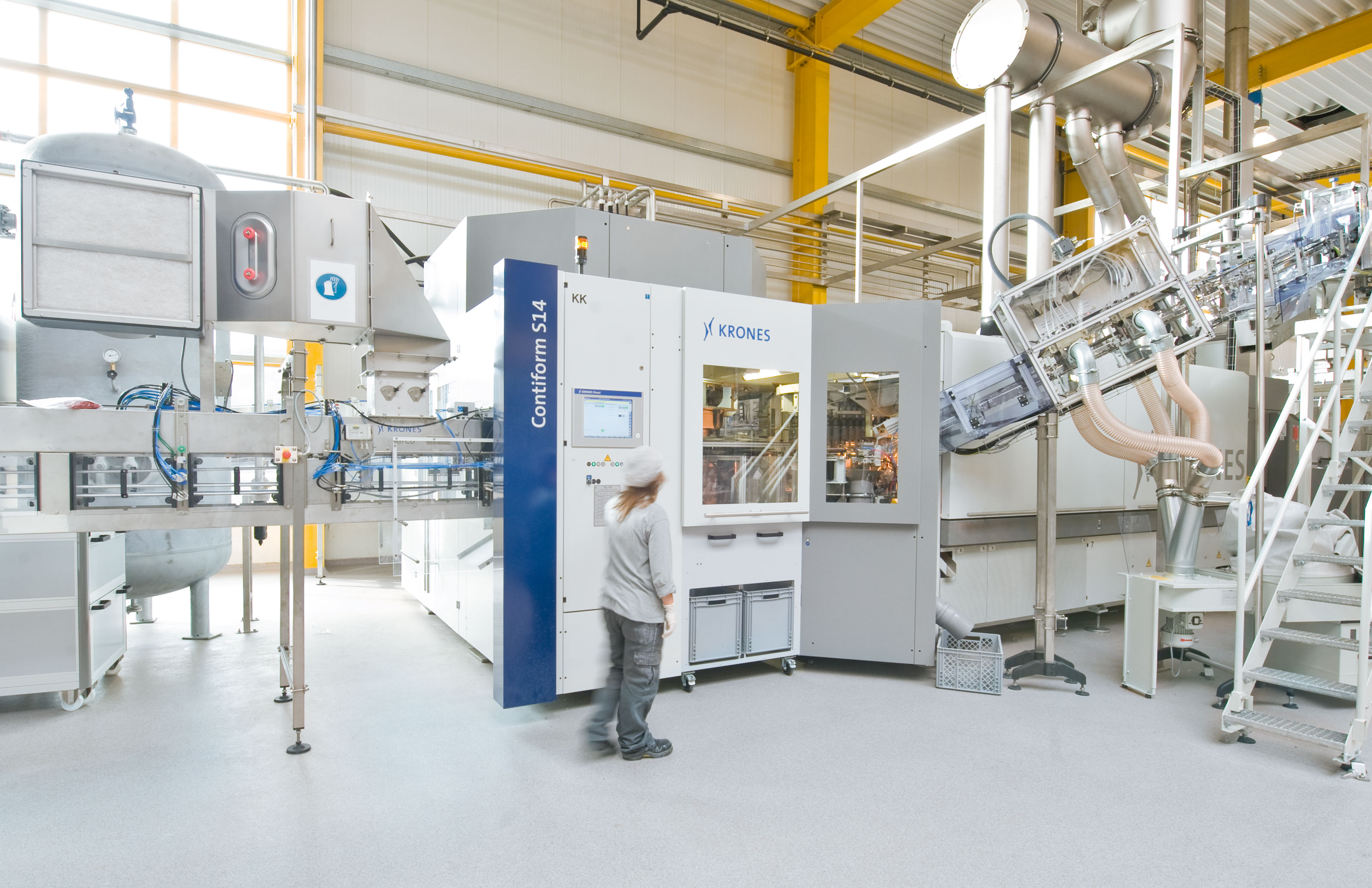 Total view of a Krones Contiform S14 blow molding machine